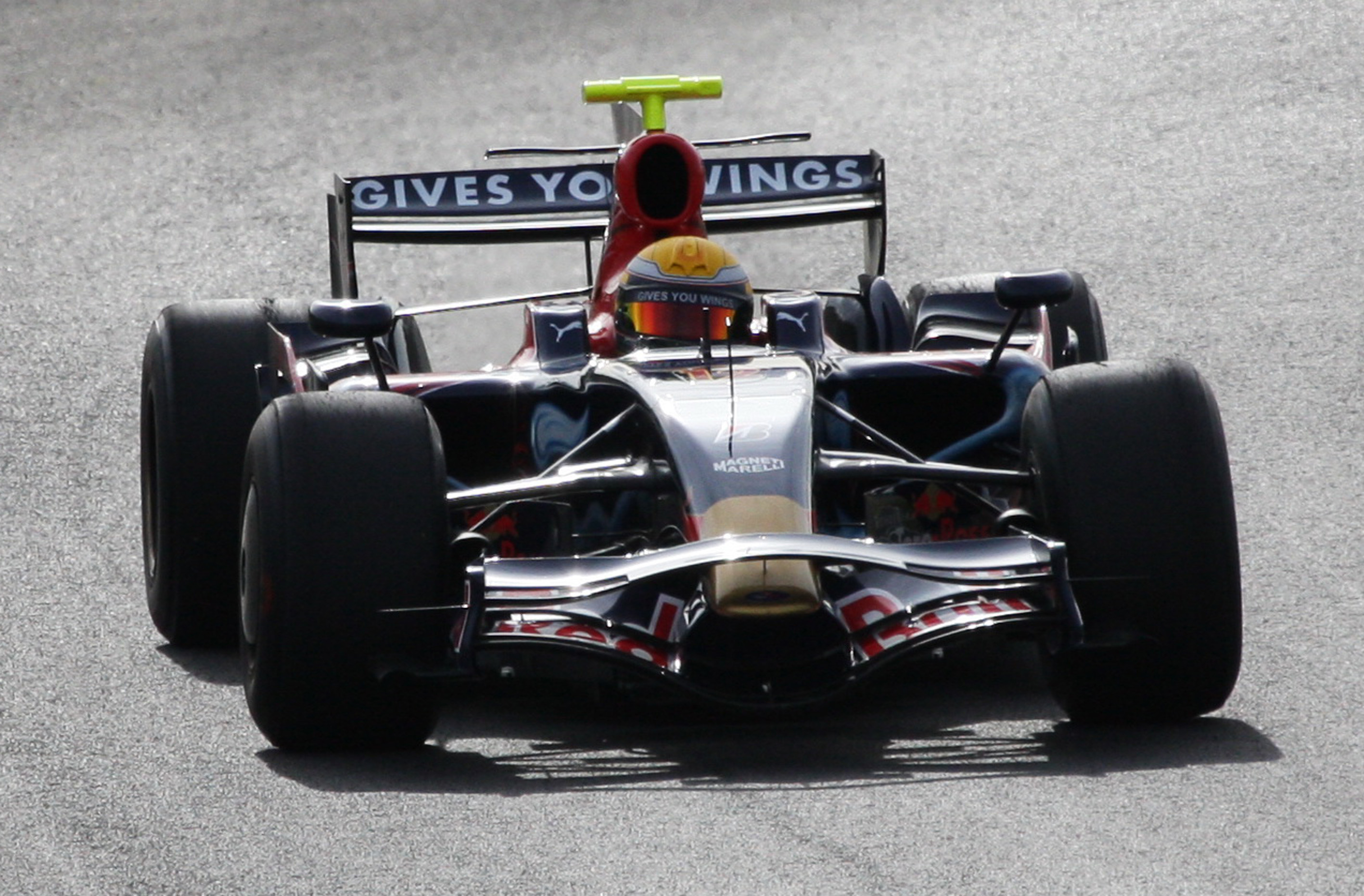 Sébastien Buemi in the Toro Rosso STR3, F1 testing session, Jerez 10-Feb-2009